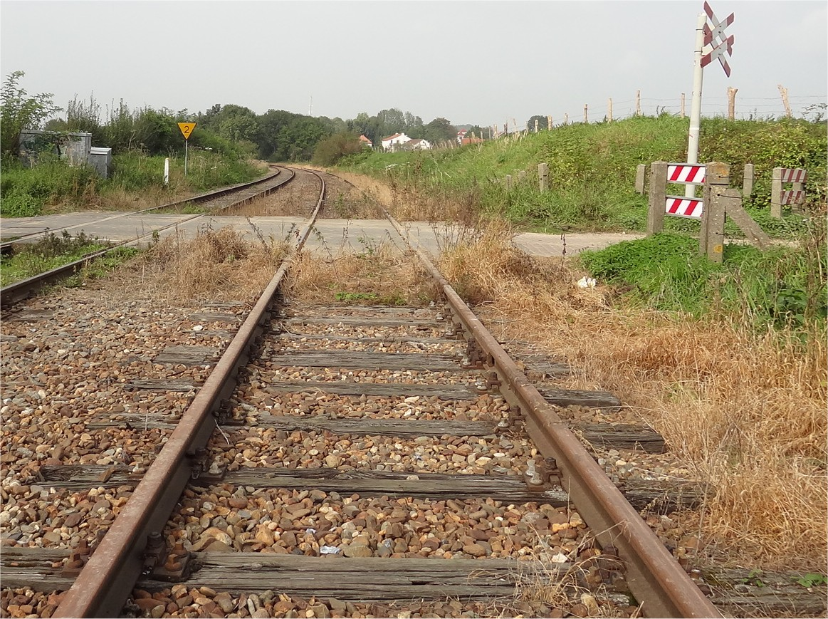 Film location of grandfather's train accident in the film "Flodder" 1